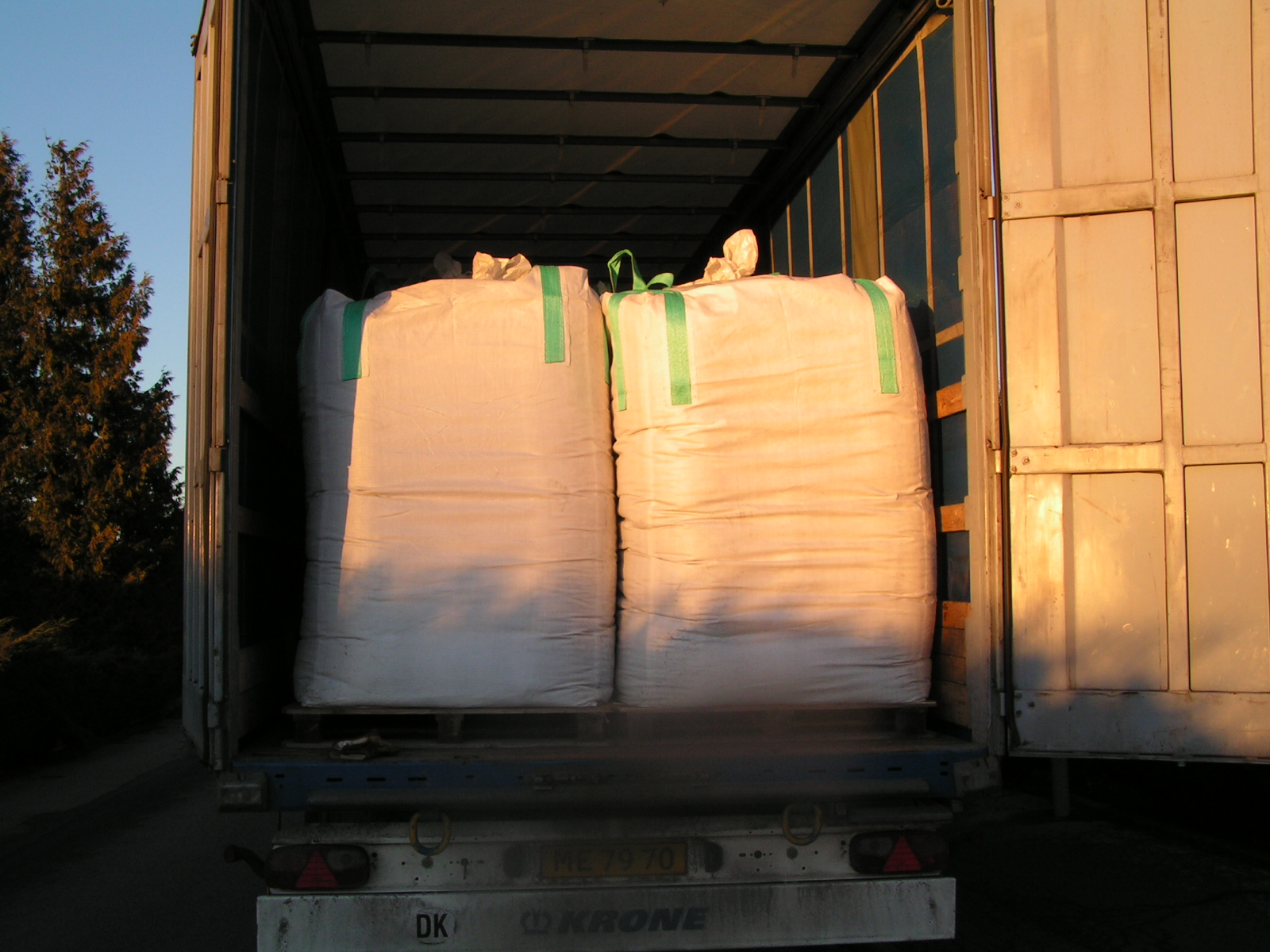 Bigbags filled with plastic granules